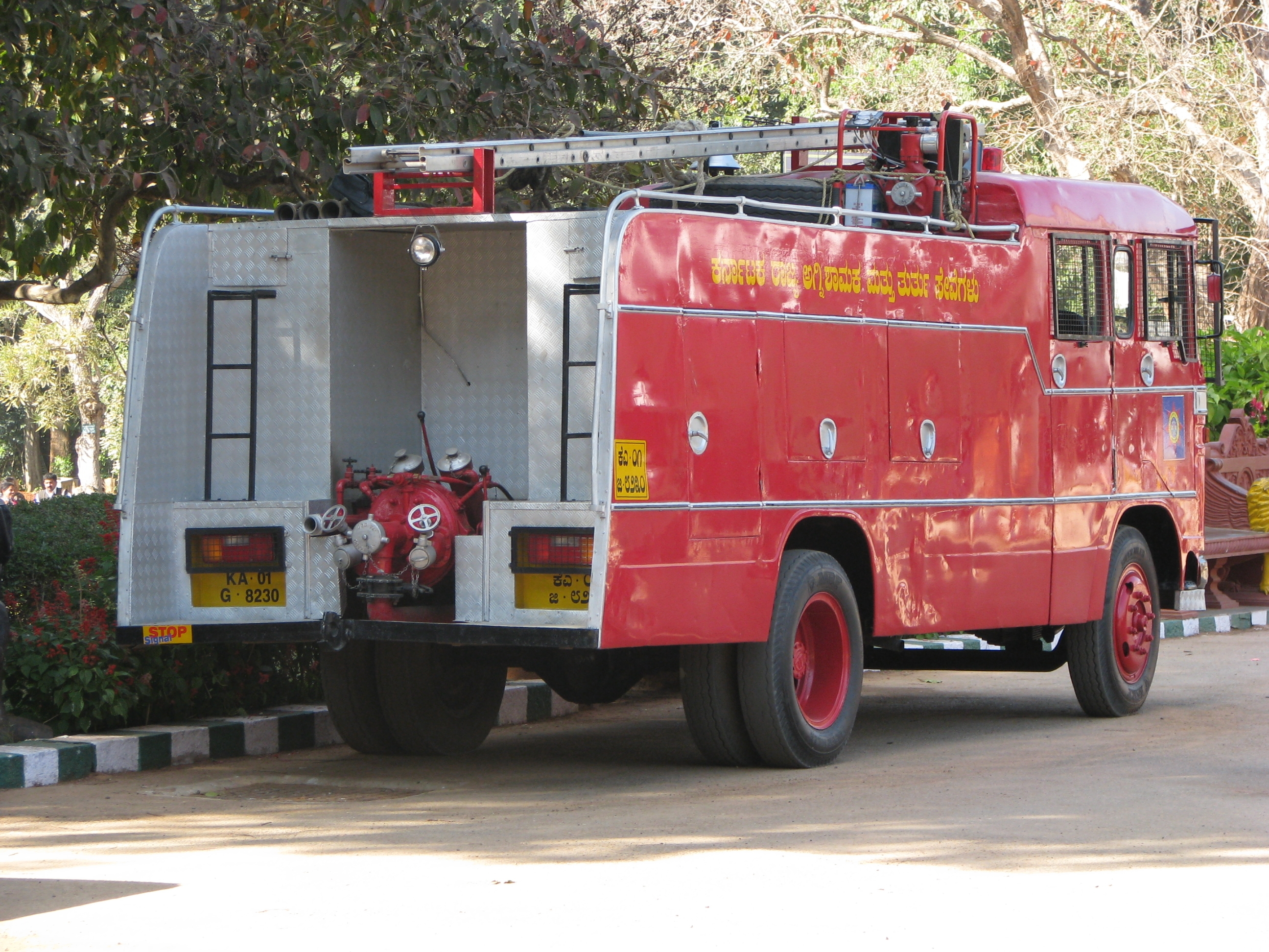 Fire Engine from Lalbagh